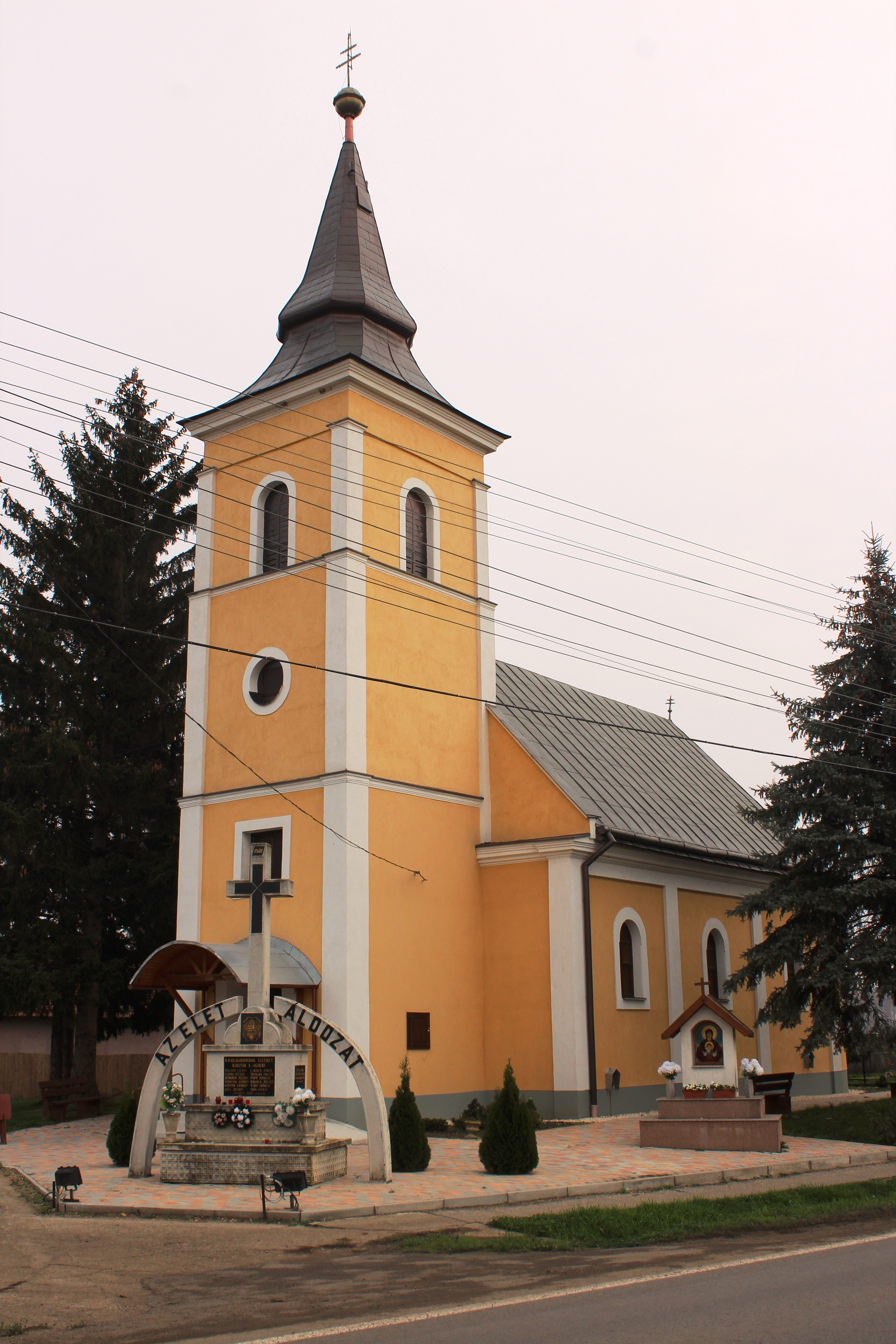 Greek Catholic church in Pátyod, Hungary